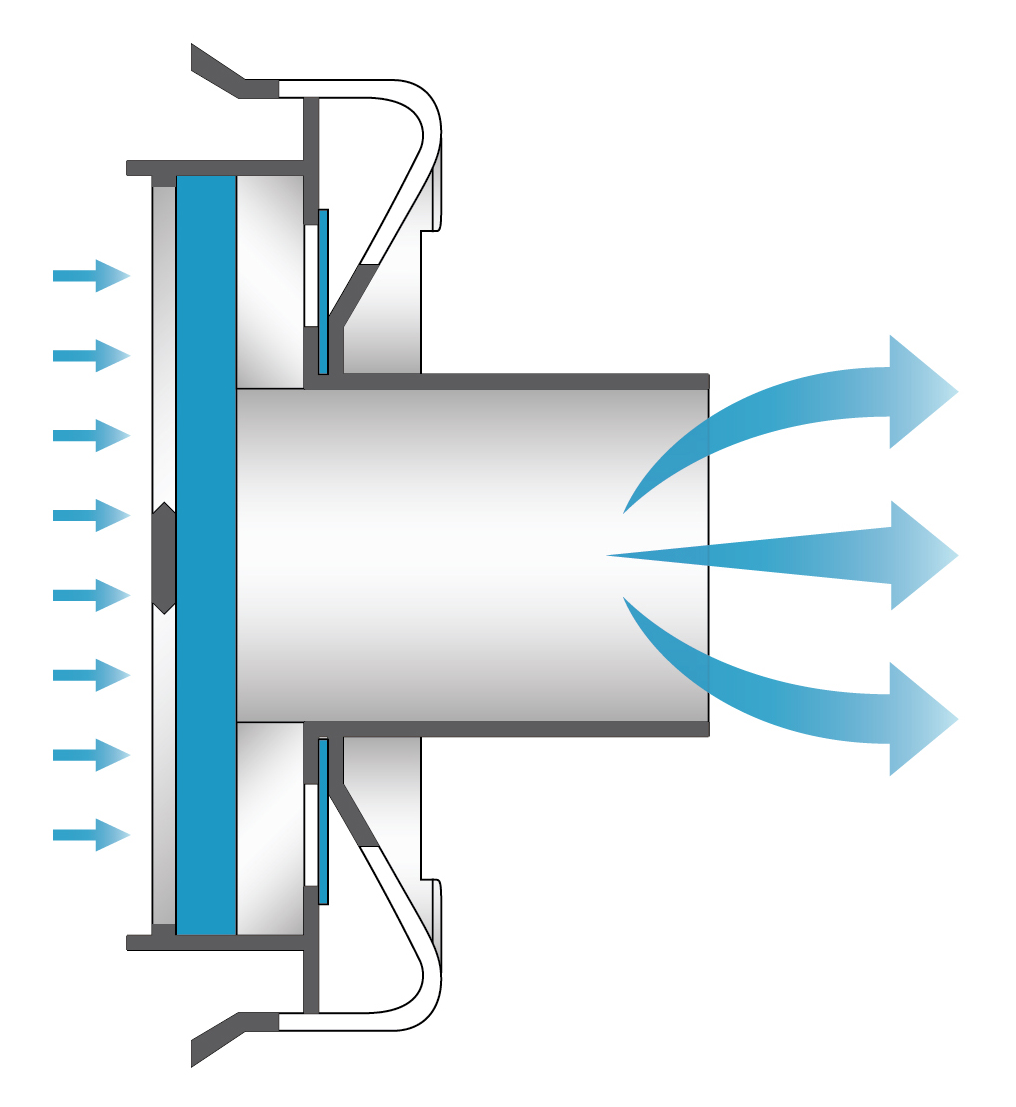 The image shows how the one-way valve on a demand valve closes as the patient breathes in.